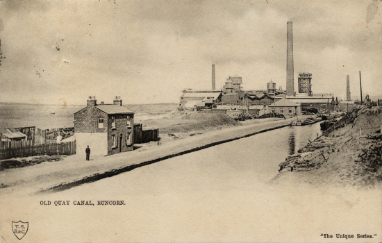 Postcard depicting the Runcorn to Latchford Canal and Wigg Works